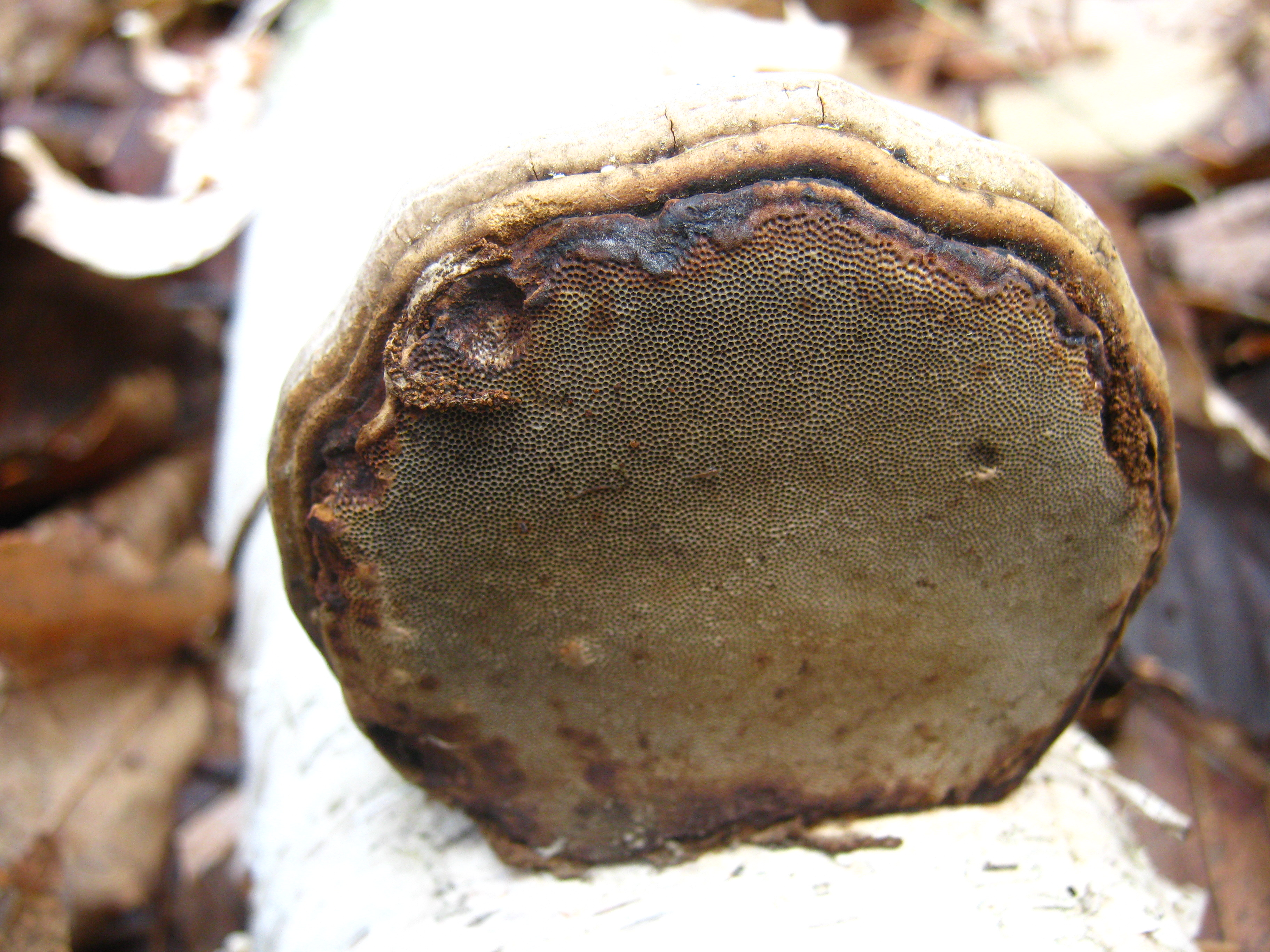 Fomes fomentarius (L.) J.J. Kickx Location: Forest near Elgin Street, Pembroke, Ontario, Canada Notes: On paper birch in Zone 03. For more information about this, see the observation page at Mushroom Observer.